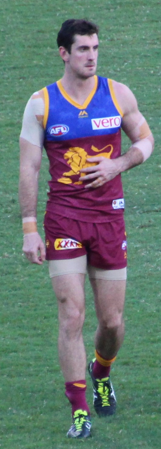 Darcy Gardiner at the Round 6, 2017 game for the Brisbane Lions against Port Adelaide.